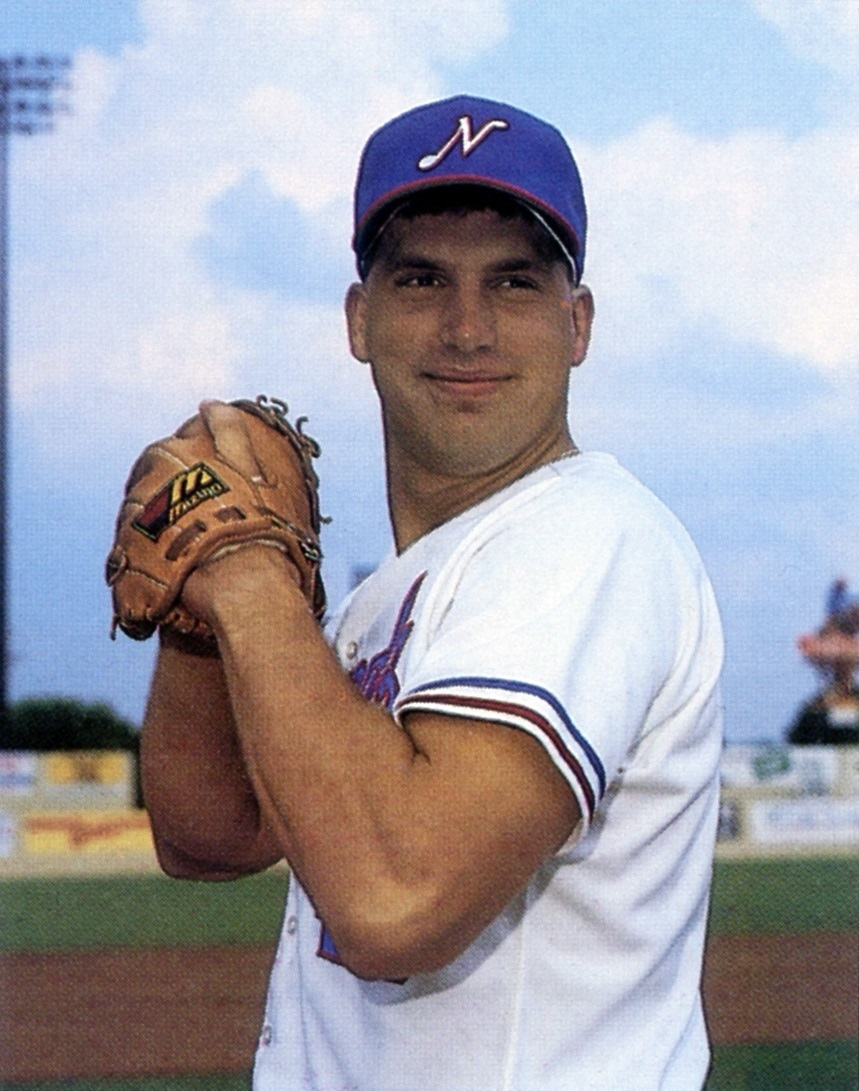 Pitcher Rob Dibble of the 1987 Nashville Sounds Minor League Baseball team of the American Association